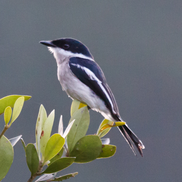 A Bar-winged Flycatcher-shrike at Knuckles Forest Reserve, Sri Lanka.